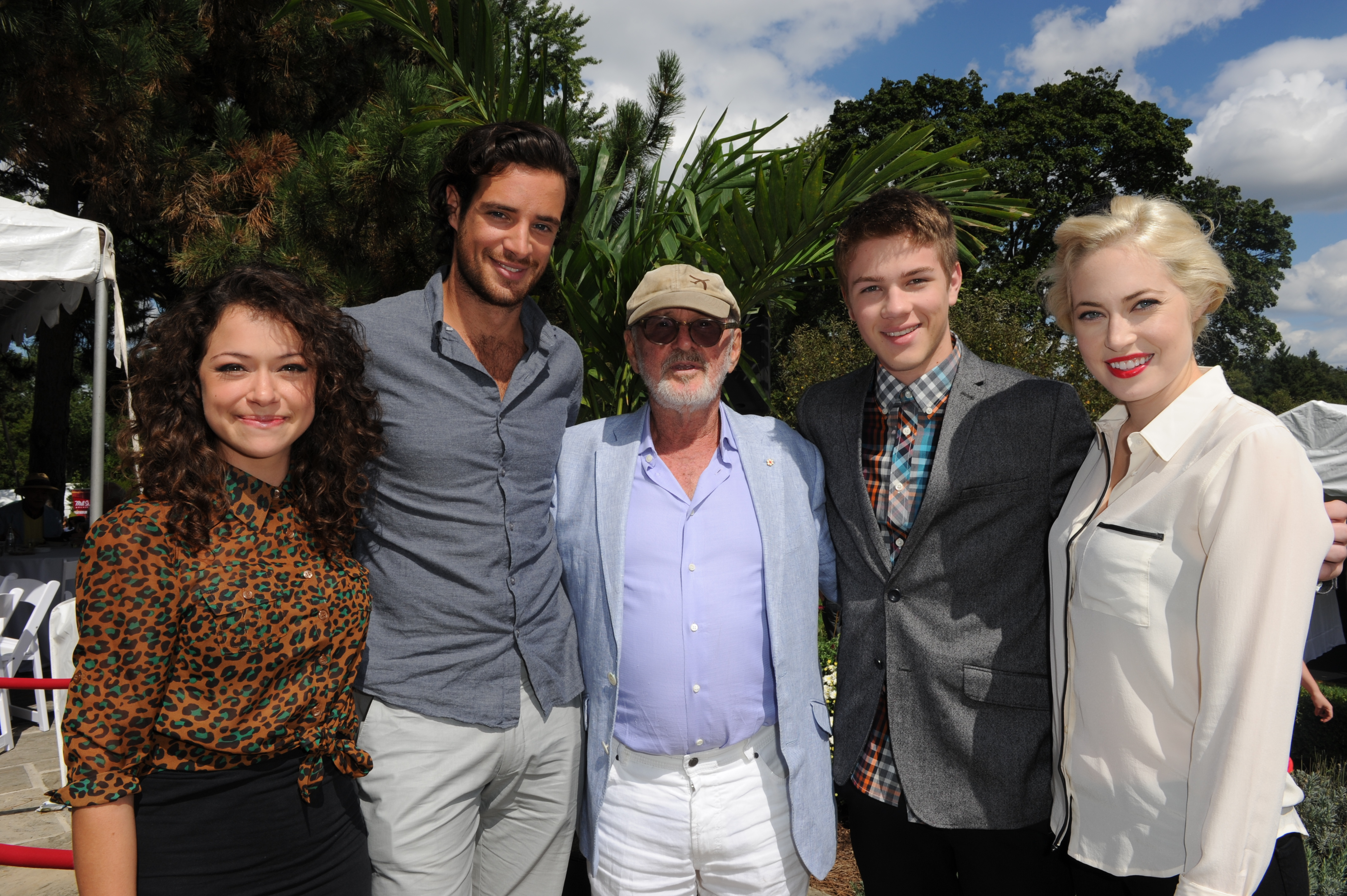 TIFF Rising Stars Tatiana Maslany (Picture Day) Charlie Carrick (an alumni of the CFC Actors Conservatory), Connor Jessup (Blackbird) and Charlotte Sullivan (“Rookie Blue”) with CFC founder Norman Jewison. The Canadian Film Centre (CFC) Annual BBQ was held on Sept. 9, 2012 in Toronto, Ontario in celebration of Canadian Talent at the Toronto International Film Festival. Learn more about the Annual BBQ by visiting To find out more about the Canadian Film Centre, please visit: Photo by Tom Sandler Photography